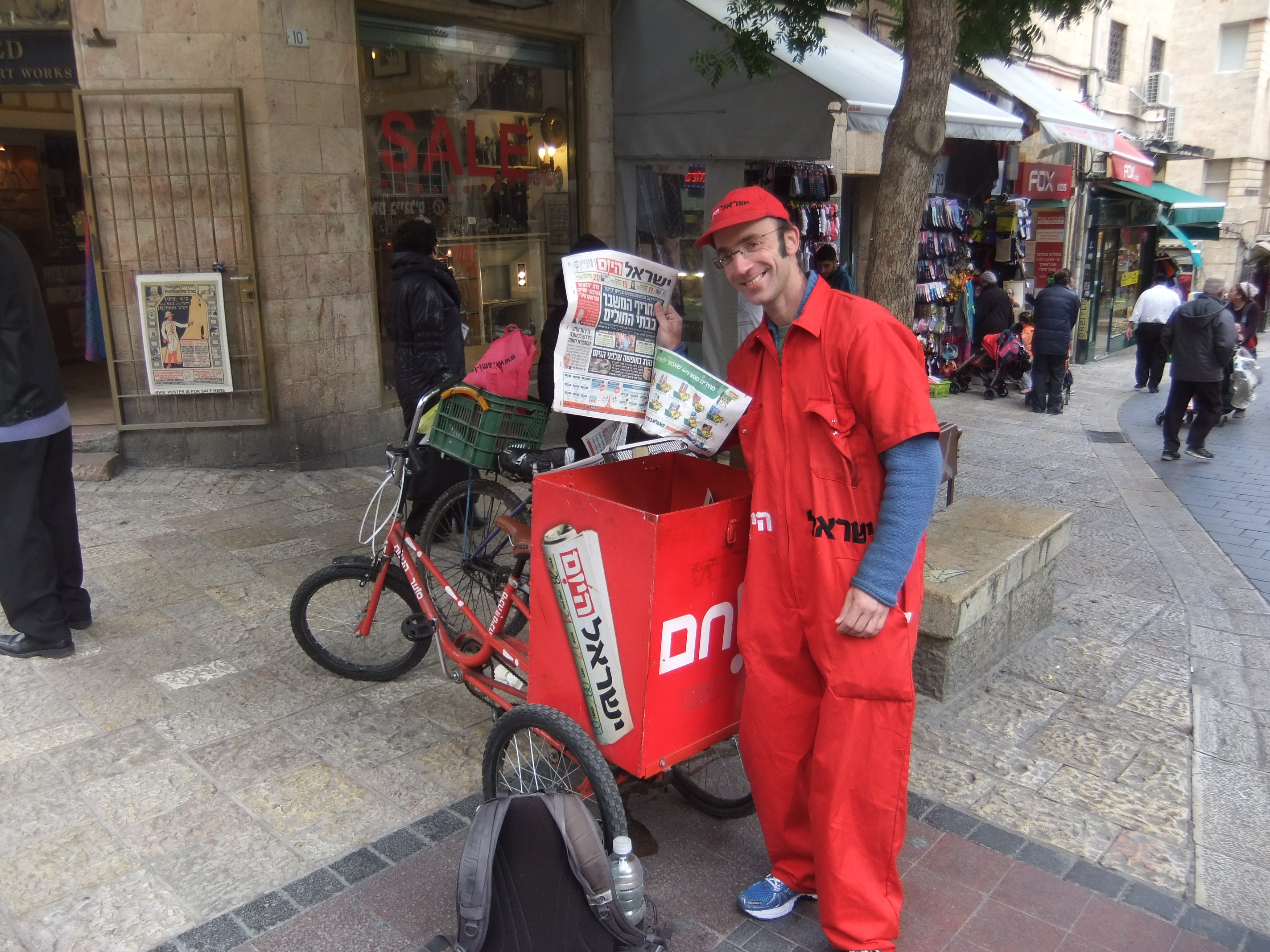 Distribution of Israel Hayom in Ben Yehuda street, Jerusalem